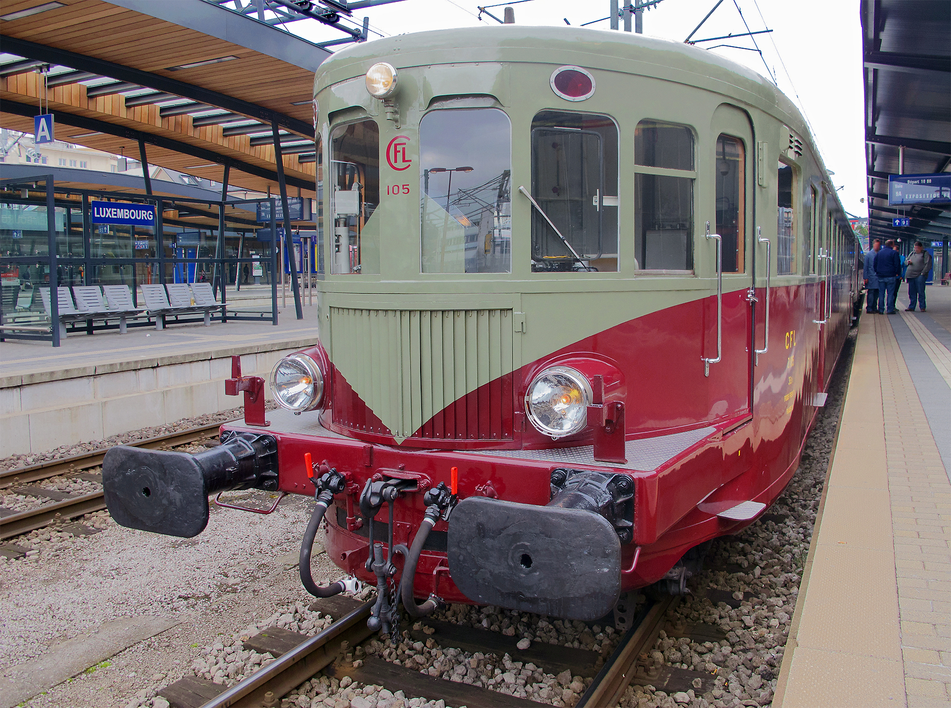 CFL Z105 in the Luxembourg-City station